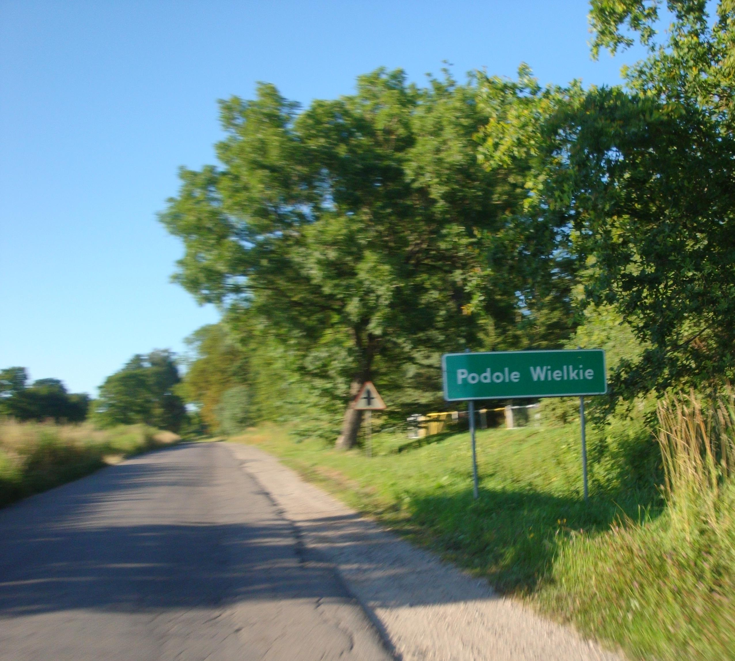 Podole Wielkie-village in Pomeranian Voivodeship, Poland.